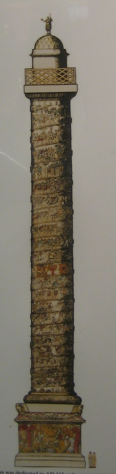 Lunt Roman fort. Coloured reconstruction of Trajan's column in Rome.